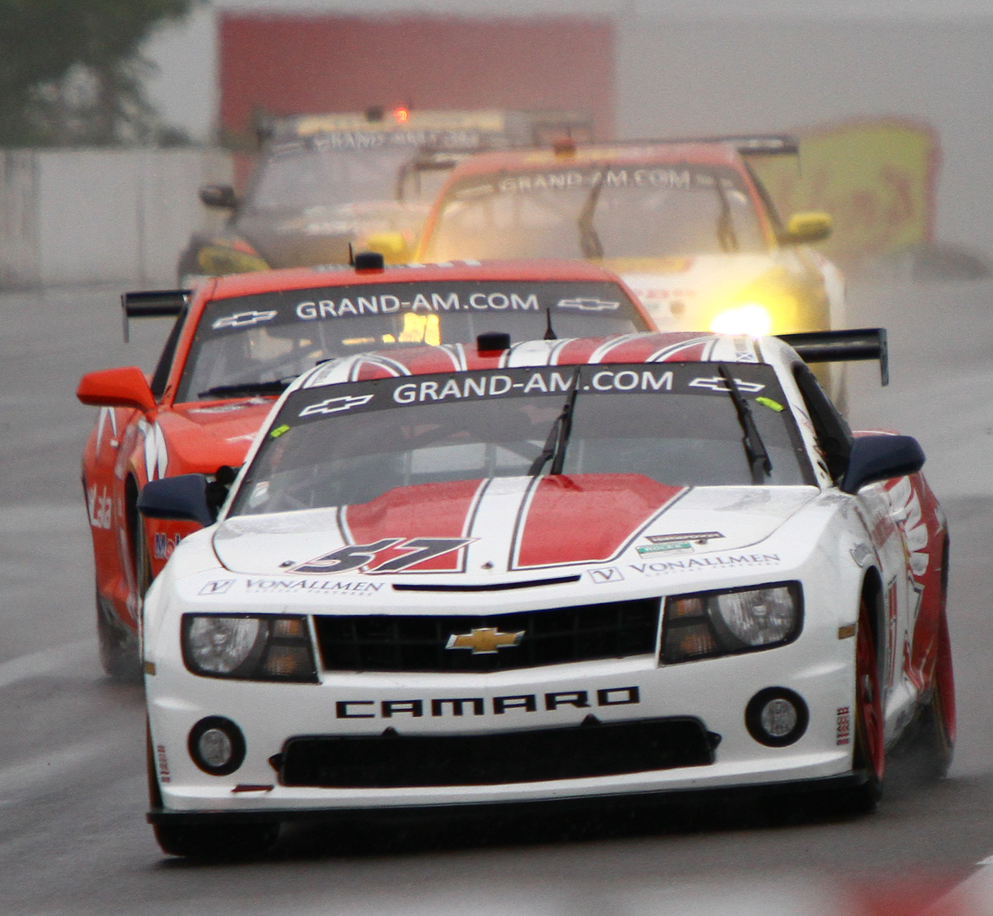 Sahlen's Six Hour at the Glen Stevenson Motorsports Camaro GTR into turn 1